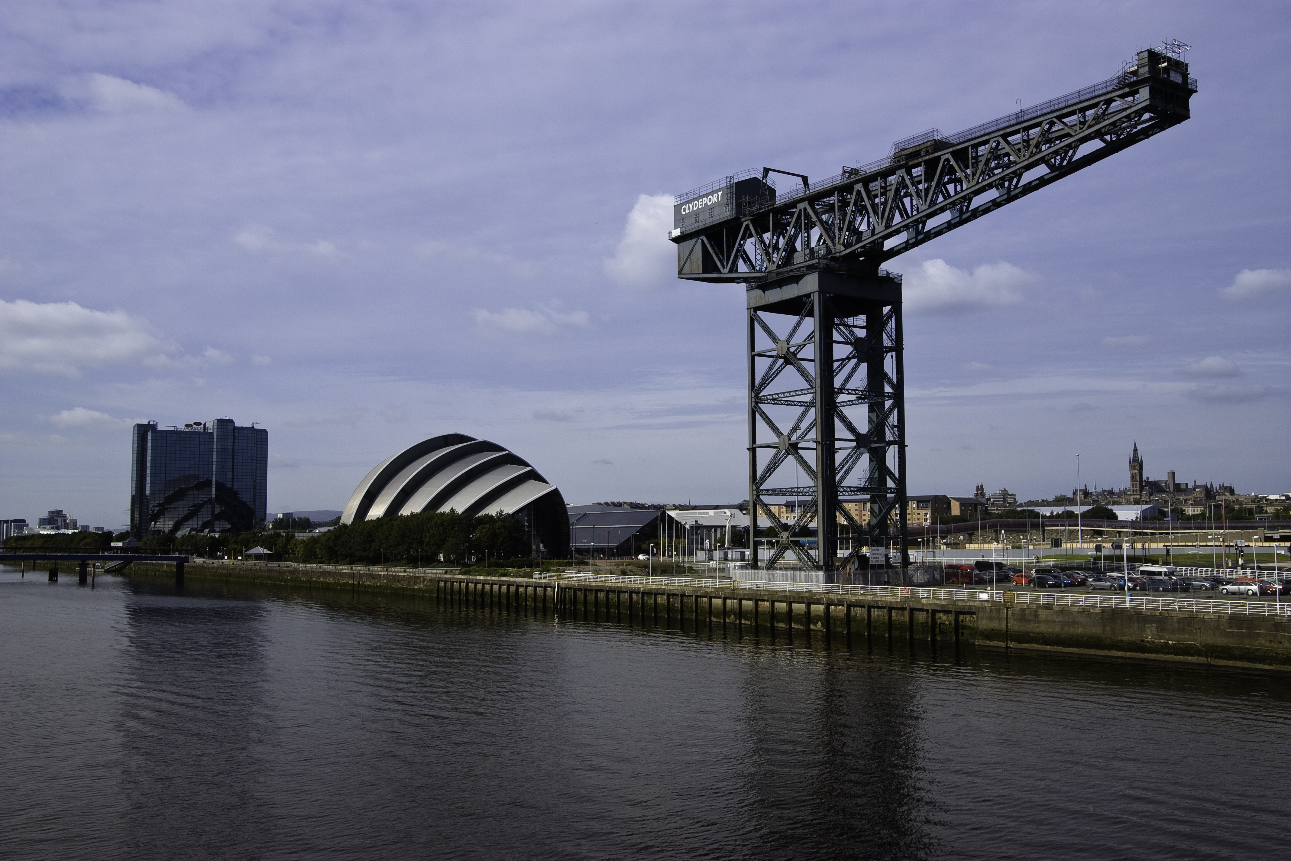 Finnieston Crane Wikidata has entry Q5450733 with data related to this item.